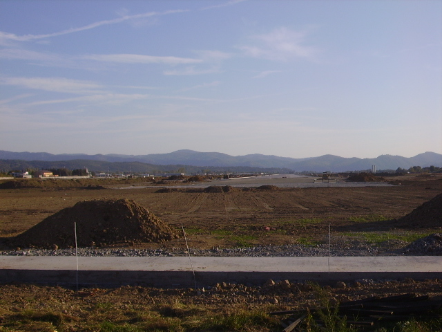 Runway reconstruction at Airport Silac (Tri Duby), Slovakia